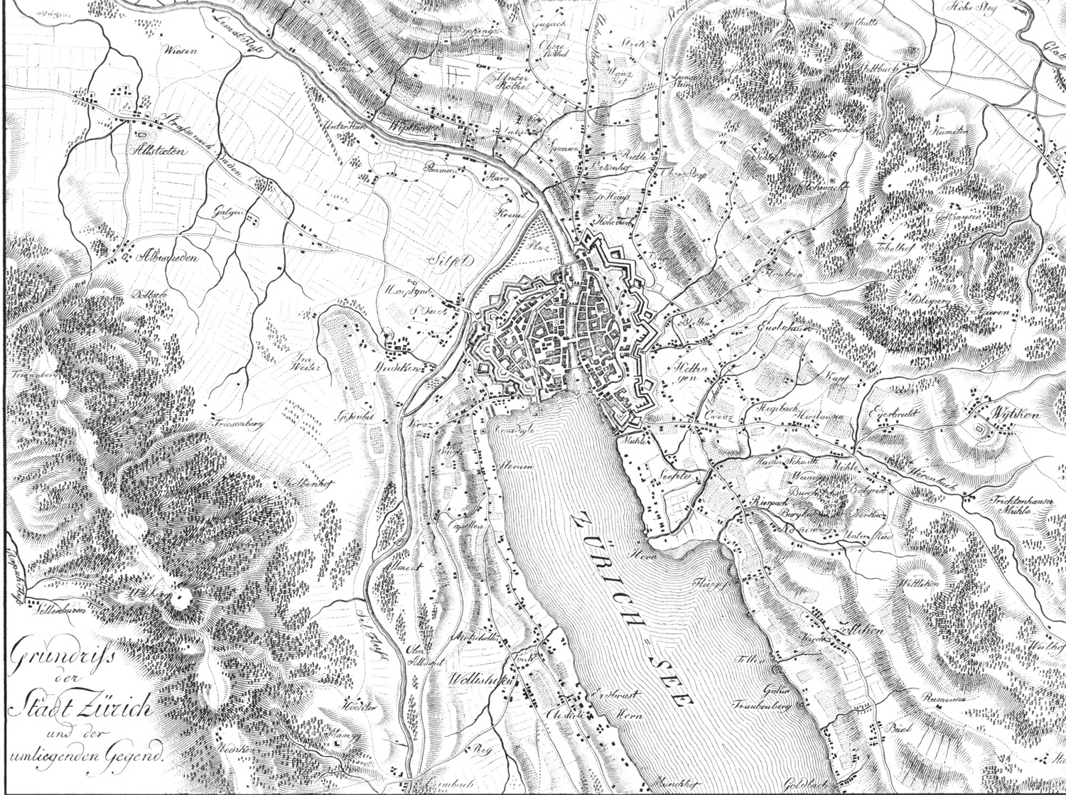 Map of the city of Zurich with surroundings 1800, Scale 1:45.000-1:50.000. Original caption: Kärtchen der Stadt Zürich